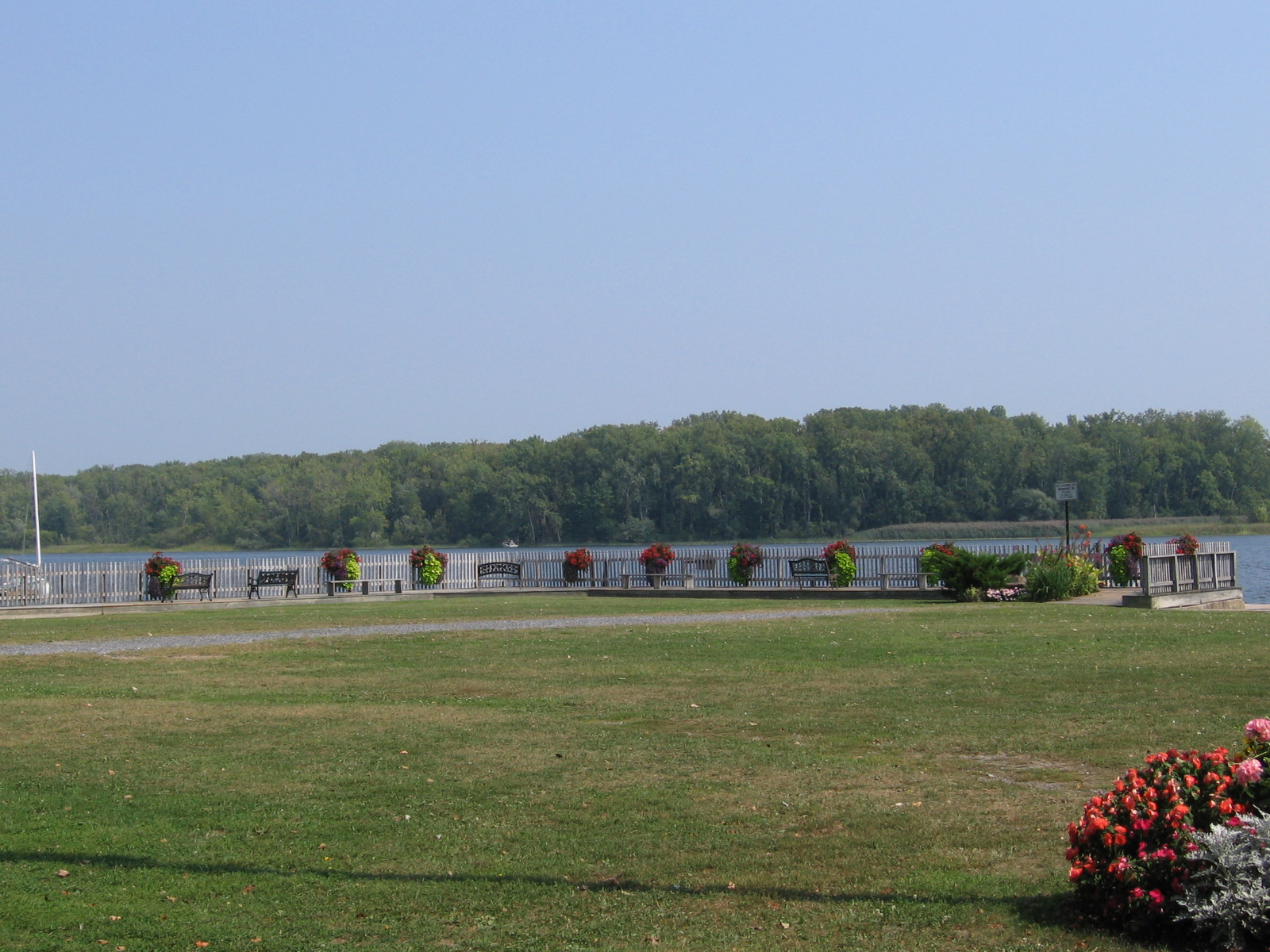 Sept. 2007